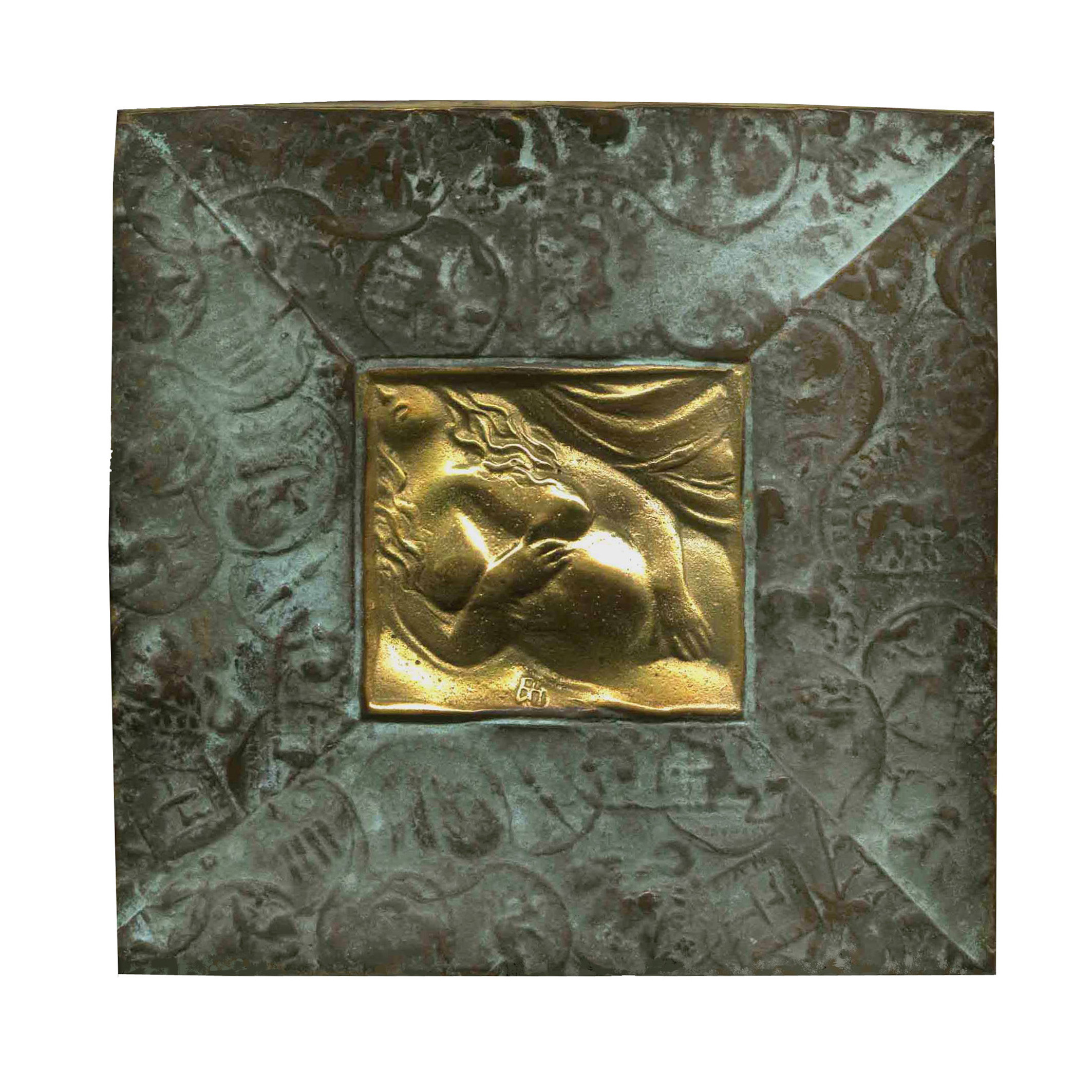 DREAM 1995, brass, 150 х 145 mm